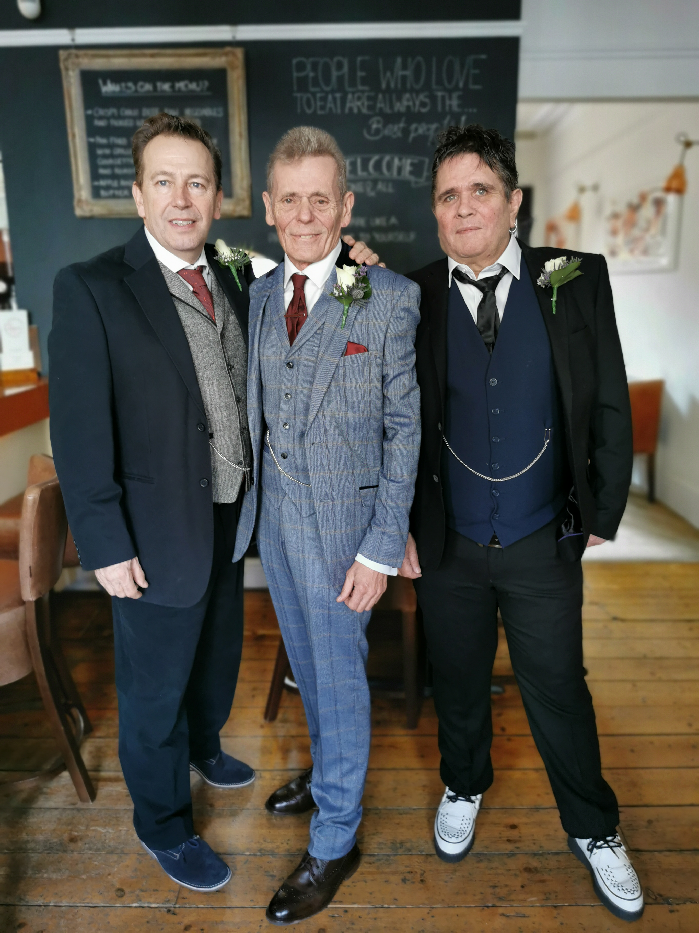 Taken on 13th February 2020, the night before former band member Vil Strang's wedding (centre) showing his best men Ricci Ricci (left, former drummer), and front man and band founder Max Splodge (right). The picture was taken in the Andover Hotel in Great Yarmouth